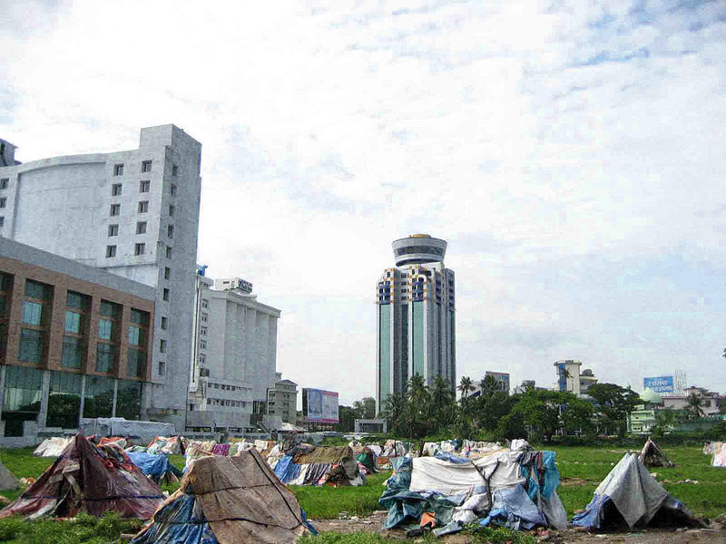 Slums next to high-rise commercial buildings in Kaloor, Kochi. Hundreds of people, mostly comprising migrant labourers from other states of India who come to the city seeking job prospects, live in such shabby areas.